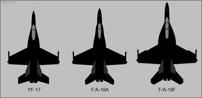 Top-view silhouette comparison between the YF-17, the F/A-18A, and the Boeing F/A-18E/F Super Hornet.